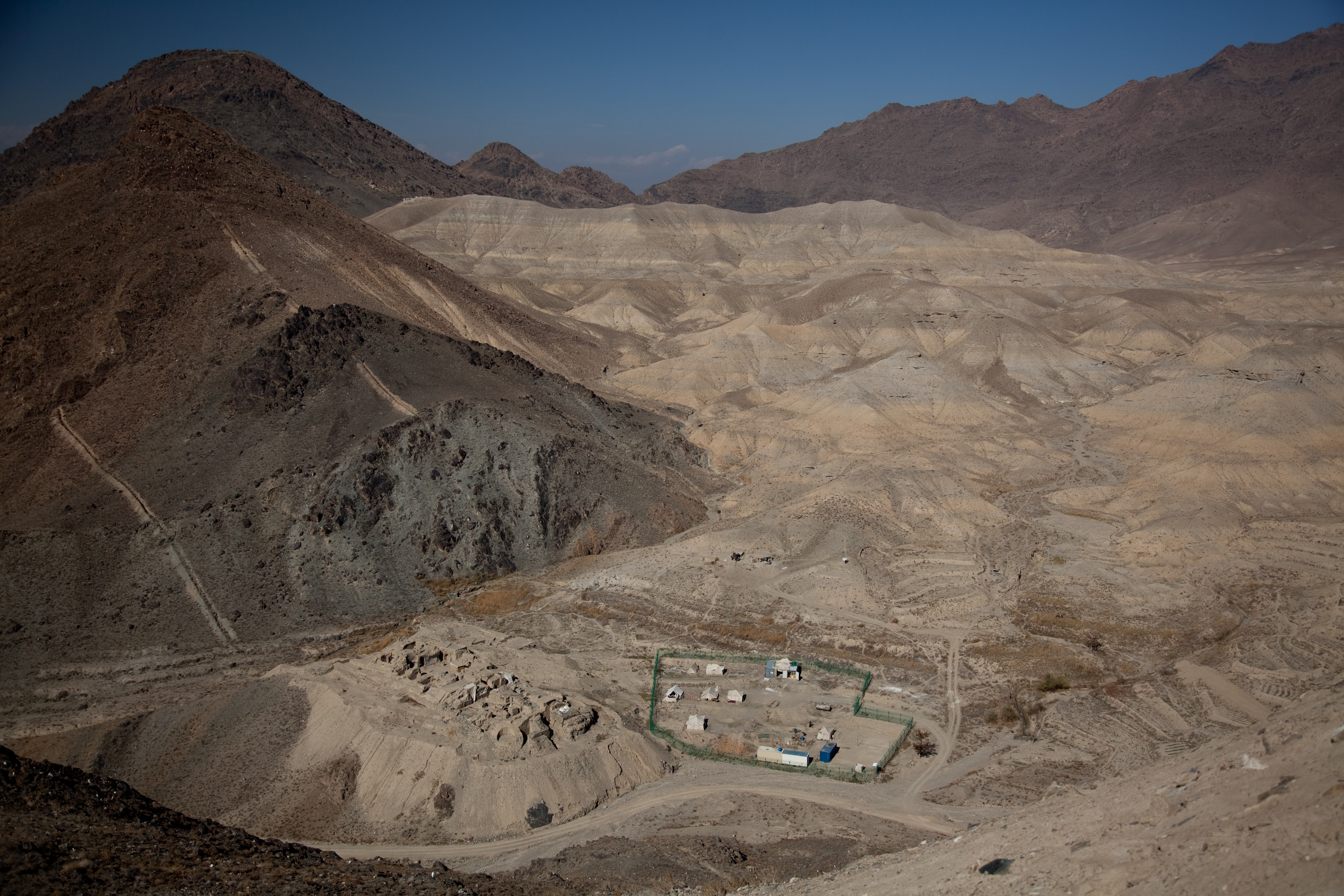 An archeologists' camp sits beneath a recently excavated Buddhist monastery at Mes Aynak, in Logar province, Afghanistan. More than 250 Afghan labourers are working with a team of international archeologists to excavate the ancient settlement, roughly 35km south of Kabul. They have already uncovered a series of four monasteries full of murals and statues, thought to date from the 3rd to the 7th centuries AD. The monasteries and settlements are on the site of an ancient copper mine - which may have first been used by humans up to 5000 years ago. Rights to the copper deposit, which is one of the largest in the world, were sold by the Afghan government to a Chinese state mining company in 2007 for $3billion.